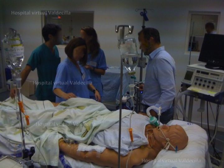 A clinical simulation for training healthcare providers